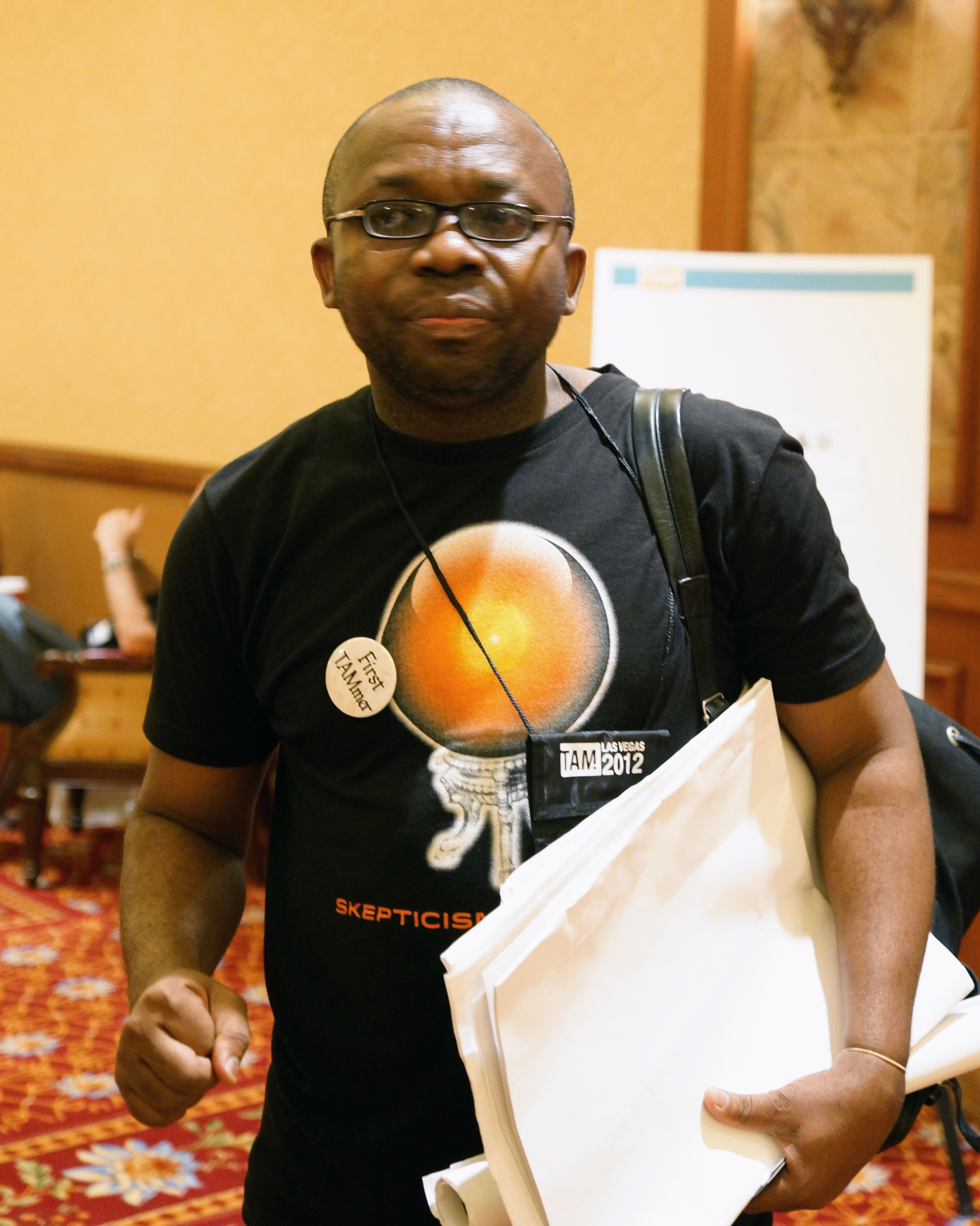 Leo Igwe participated in a Panel: "From Witch-burning to God-men: Supporting Skepticism Around the World" at The Amaz!ng Meeting, July 12, 2012, in Las Vegas, NV, USA